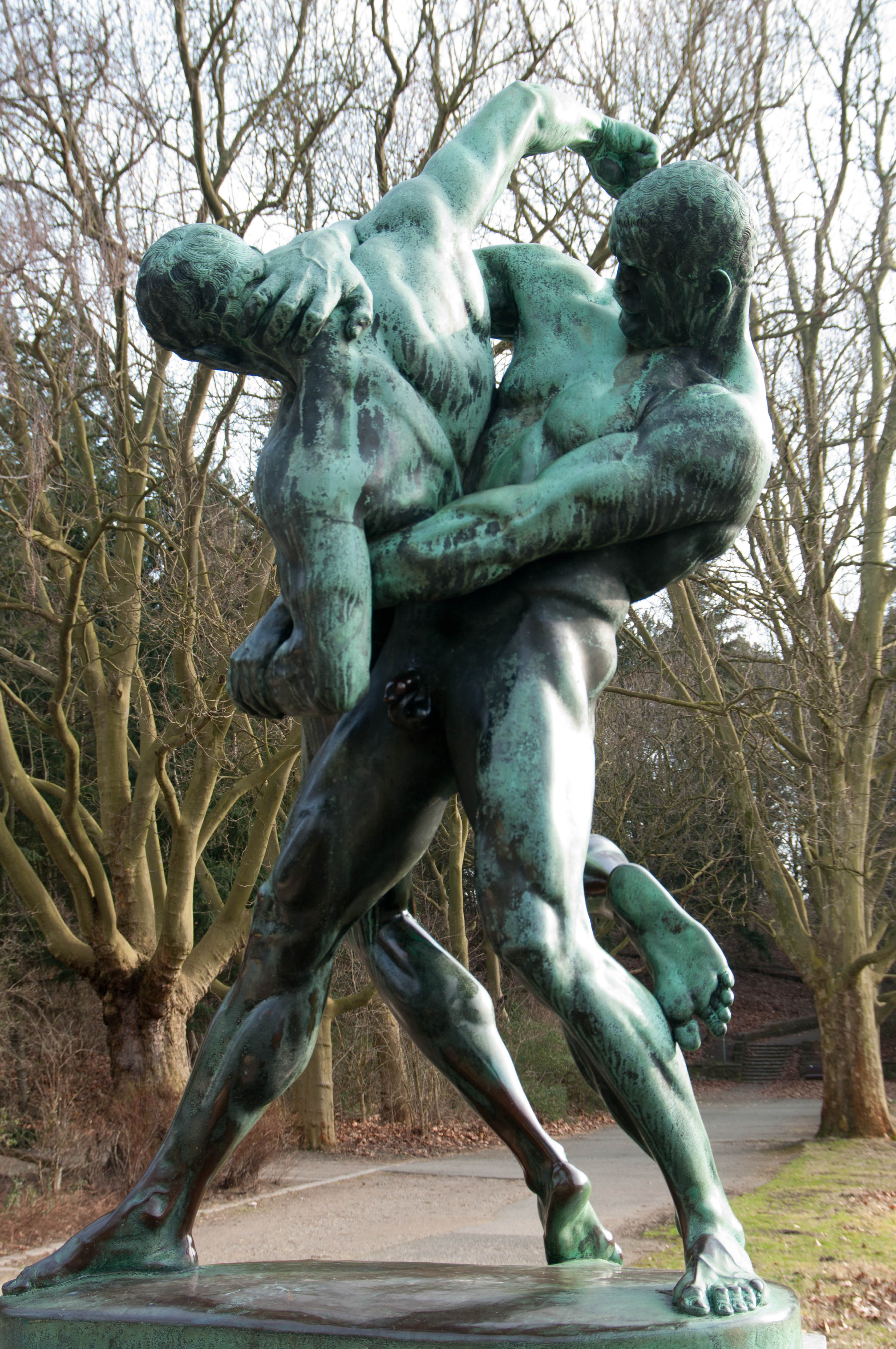 Volkspark Rehberge, Berlin, in March 2016